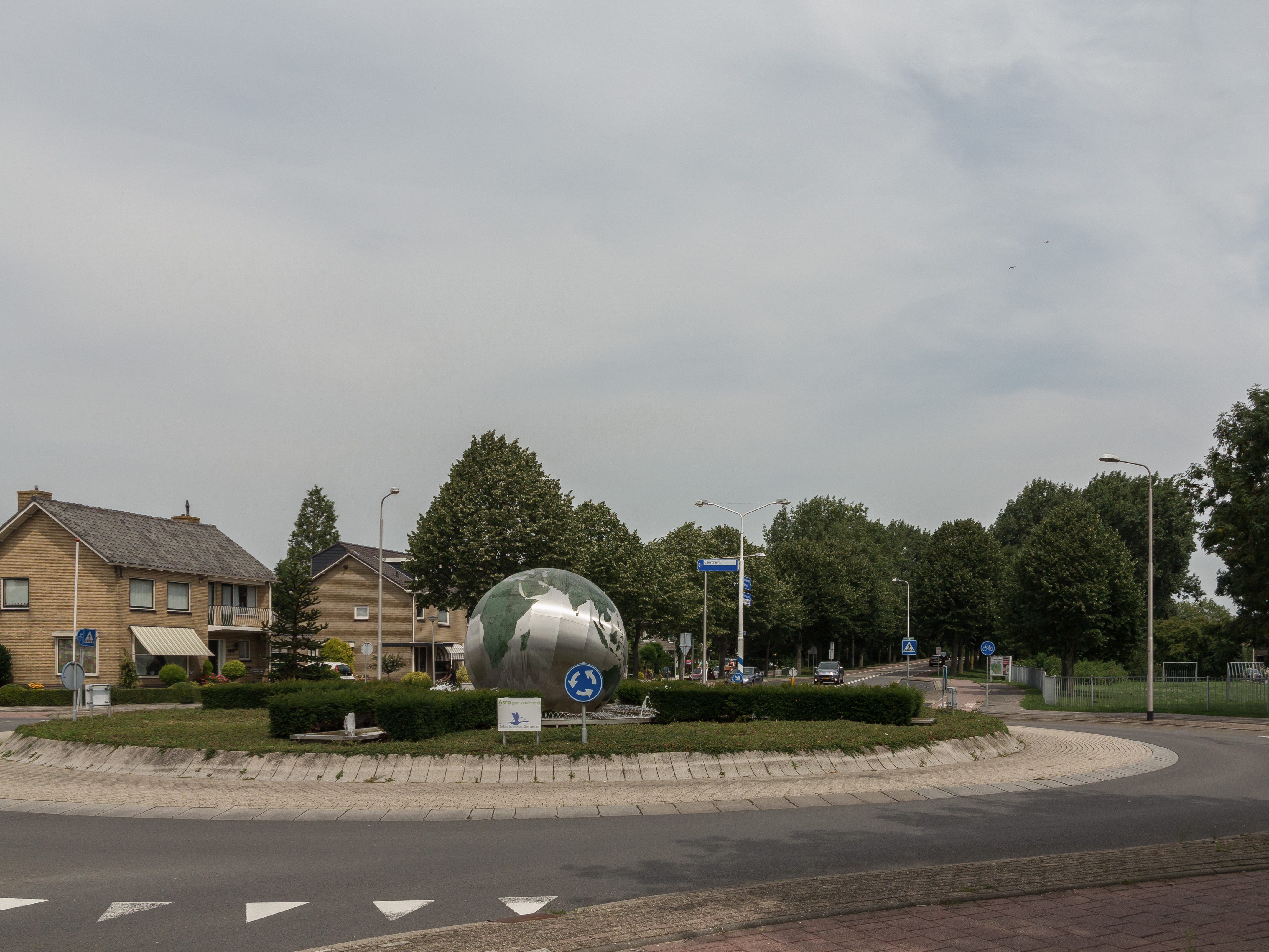 Hendrik Ido Ambacht, view to the center: de Brink